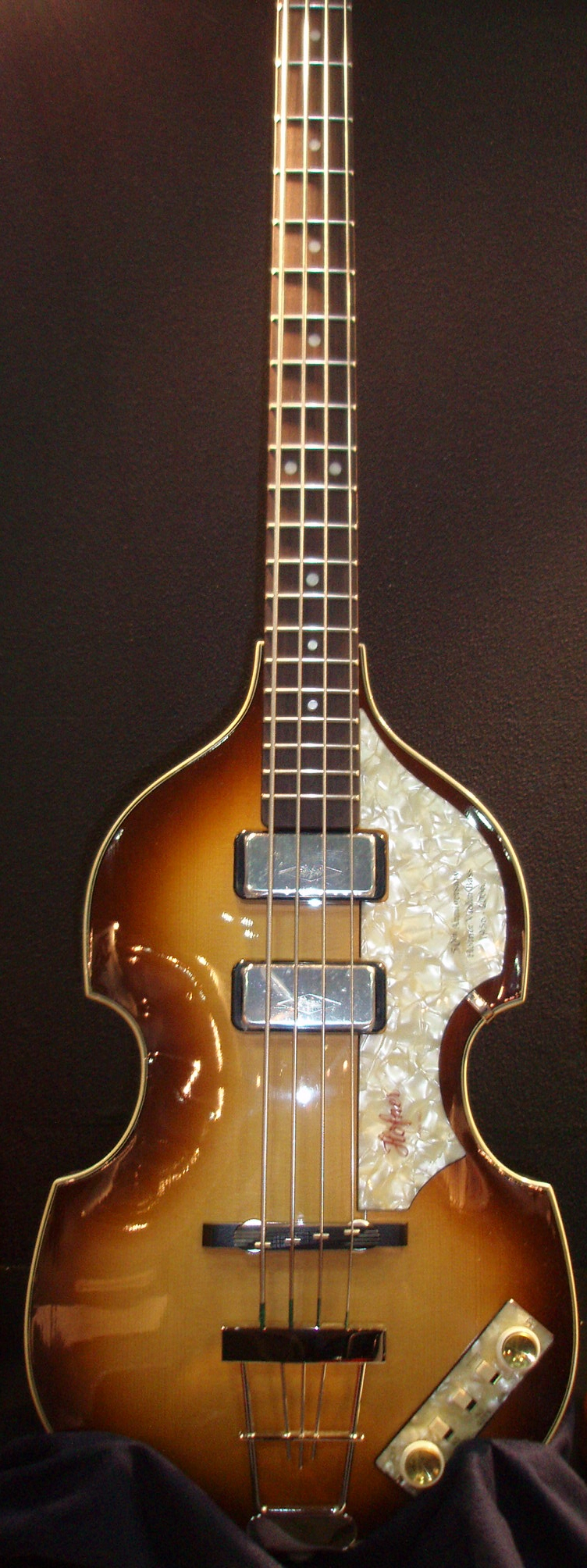 Höfner 500/1 Anniversary RH Alias to Violin Bass. Equal to '61 Cavern Bass.